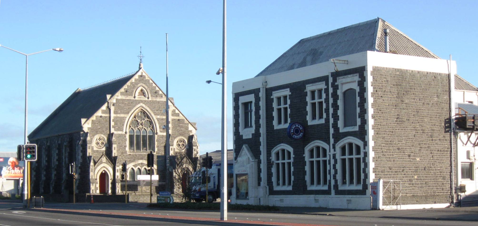 The historic Sydenham Post Office, Christchurch, New Zealand. New Zealand Historic Places Trust Register number 1935.